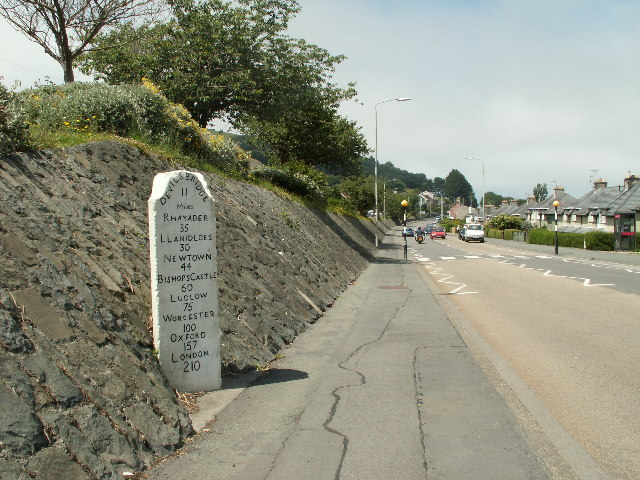 Milestone, Penparcau. Milestone at Penparcau, on the A487, looking North West